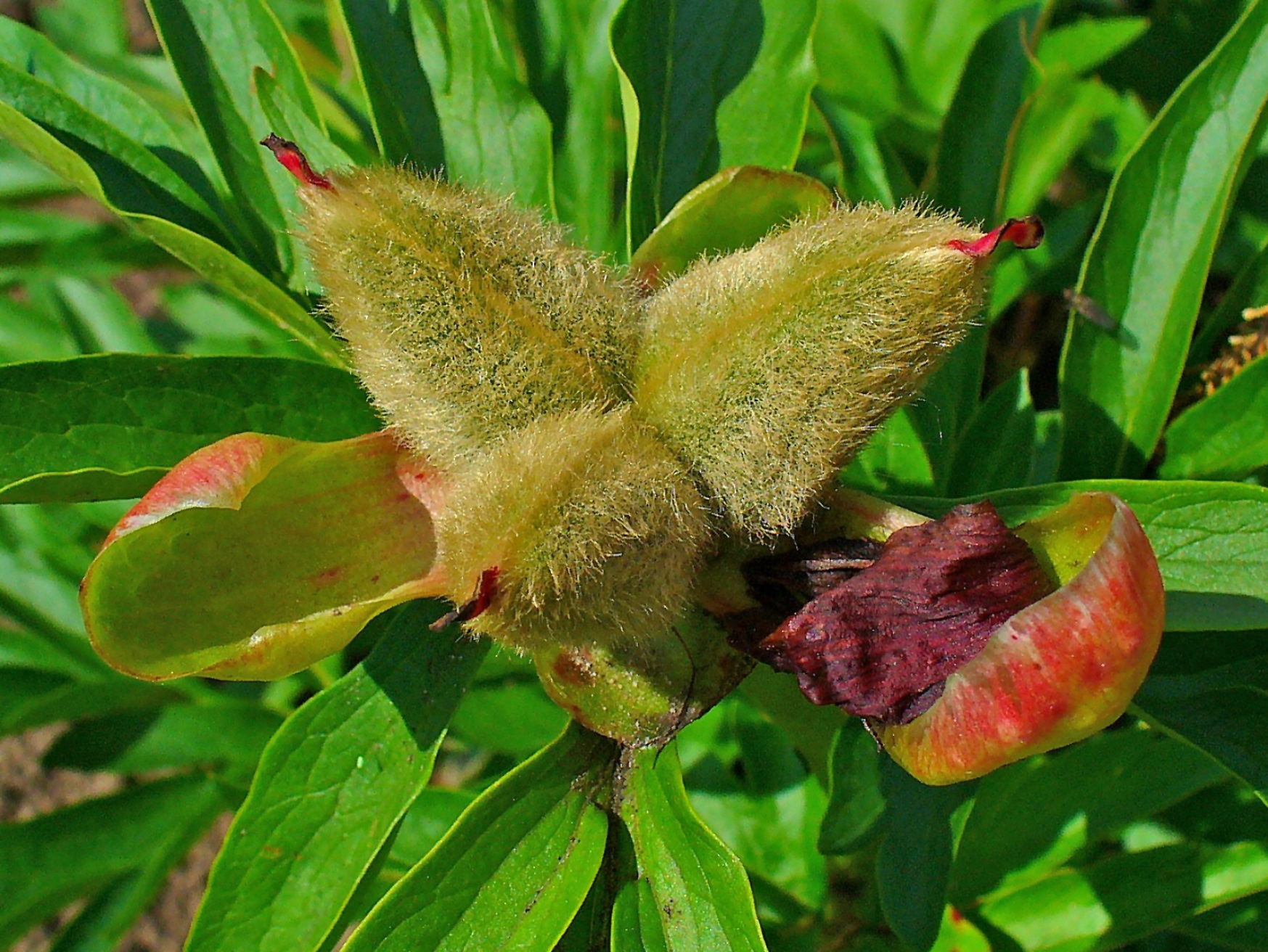 Paeonia officinalis, Paeoniaceae, European peony, Common peony, fruits.